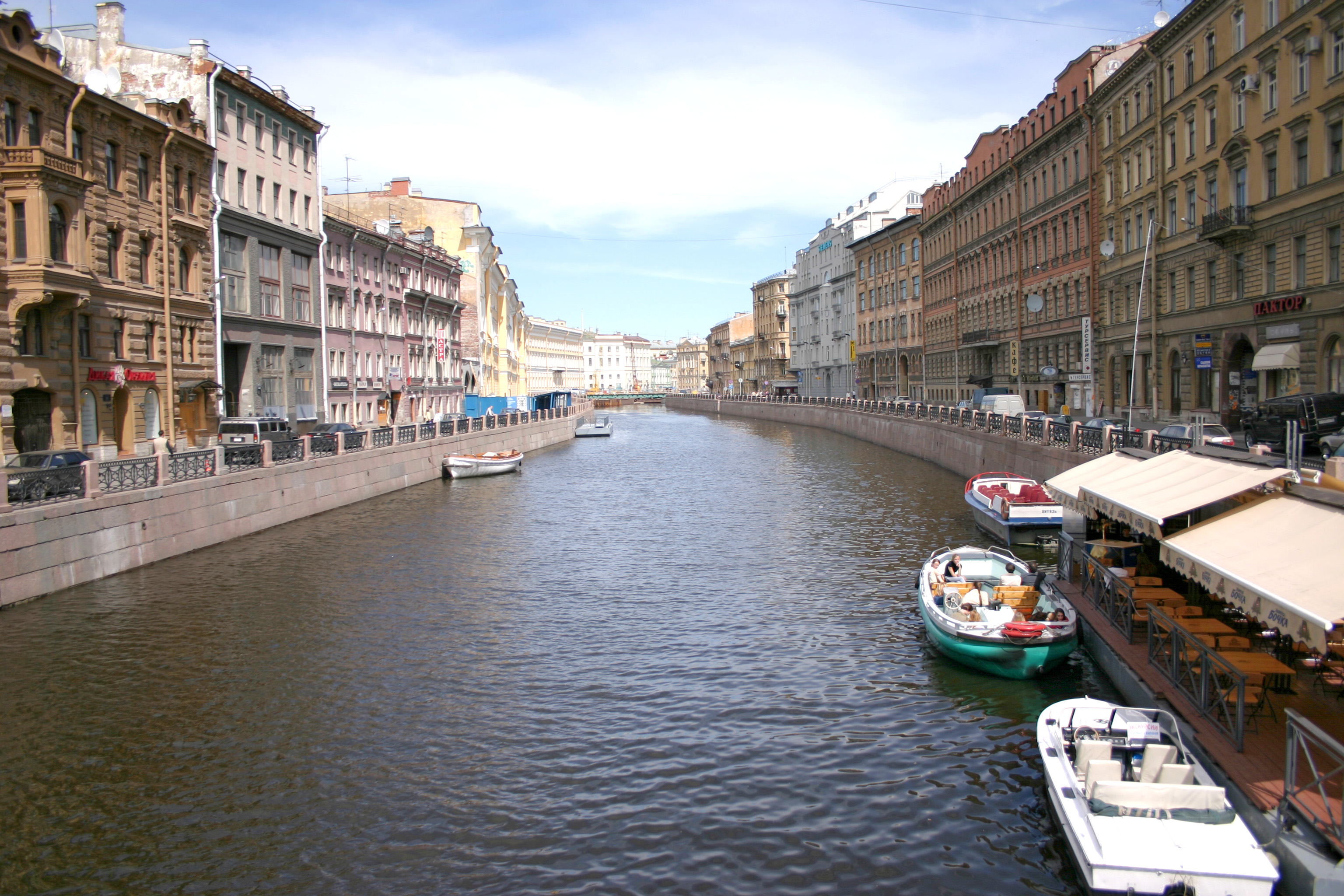 Moyka river, view from the Green bridge, Saint Petersburg